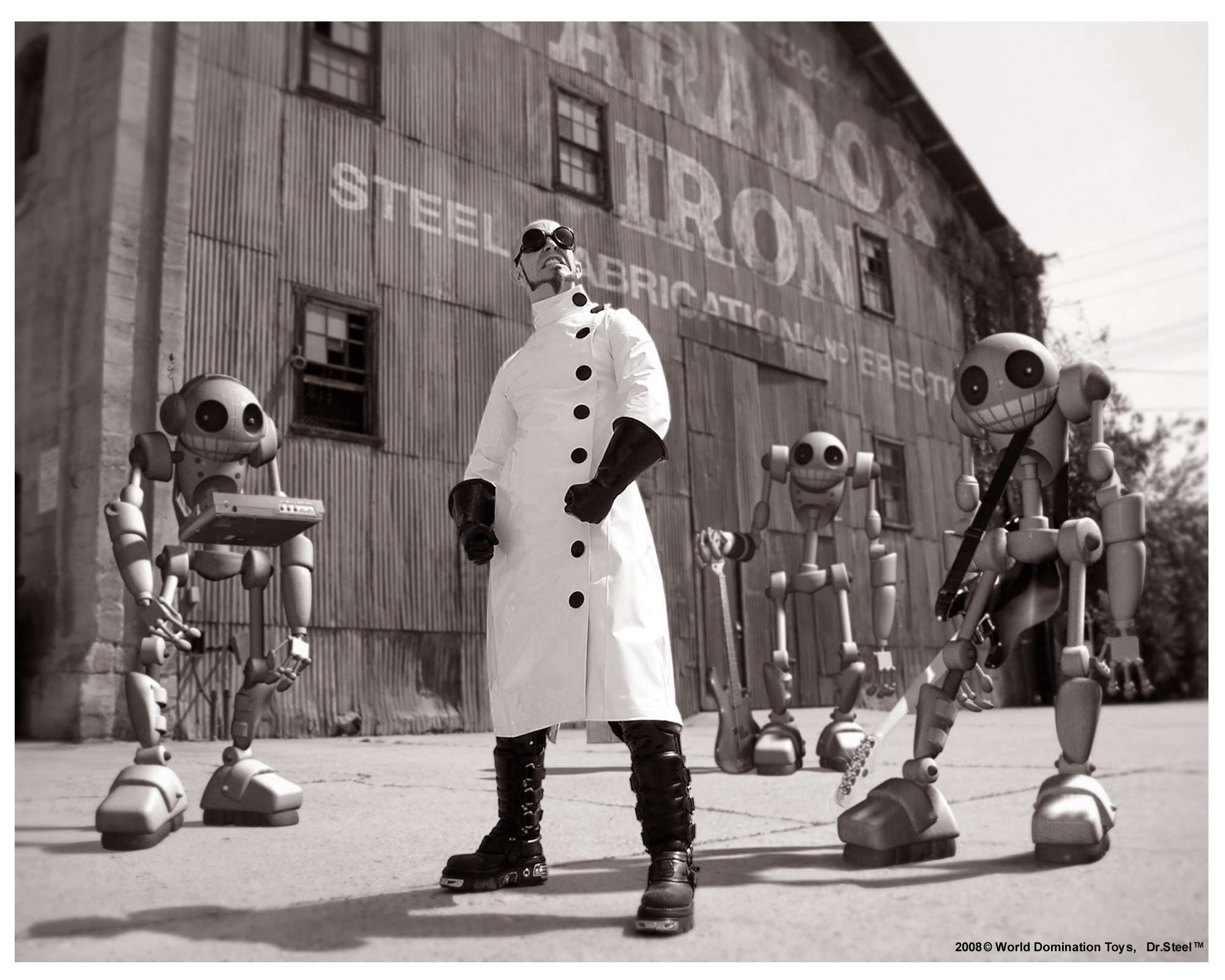 A publicity shot of musician Dr. Steel and his "robot band"